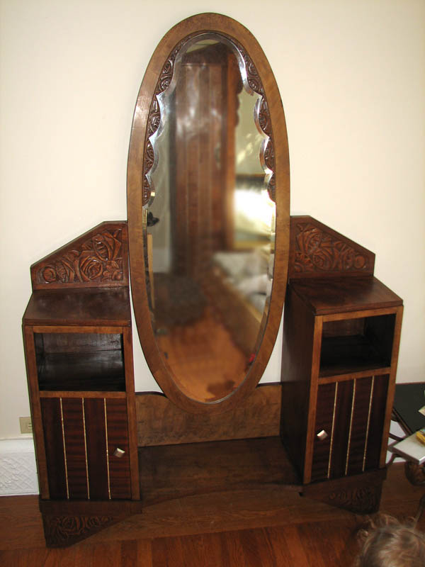 Mirror and chest ensemble - Art-Déco style.